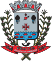 Basão de armas de Brotas - SP.